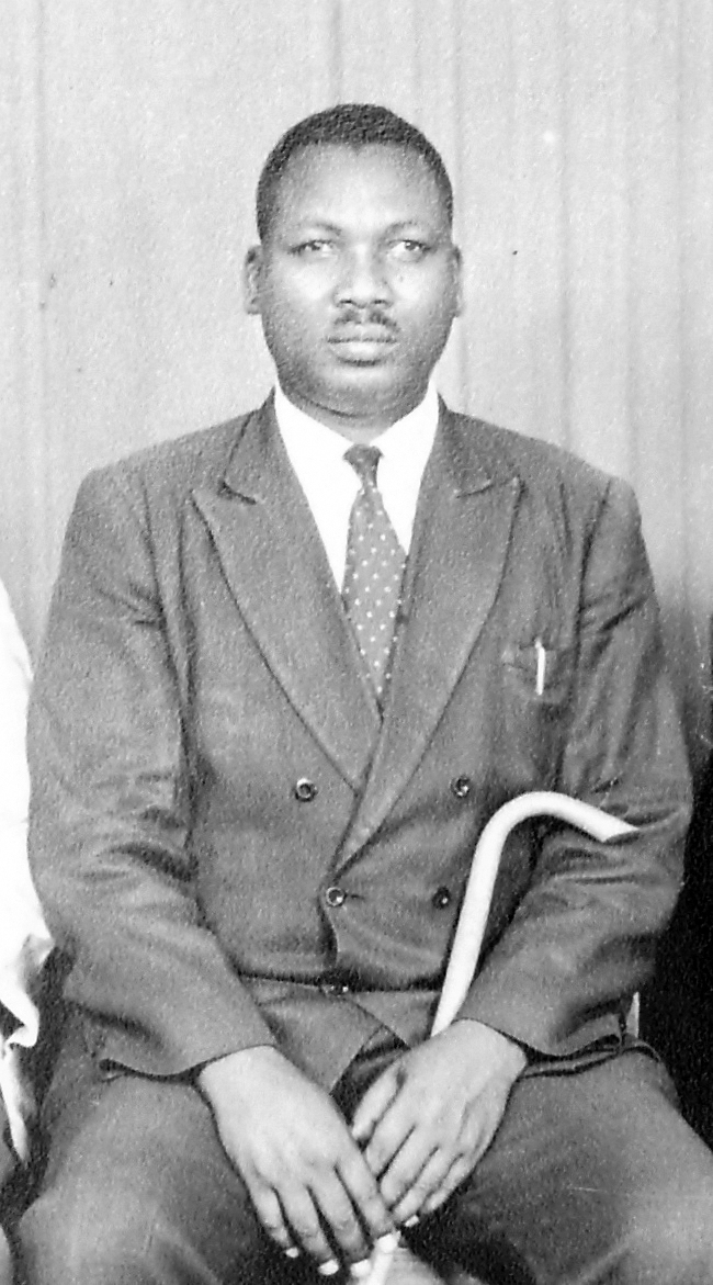 Mathias E. Mnyampala (1917-1969) was a Tanzanian lawyer, political activist, essayist, writer, historian and famous poet in Kiswahili language.